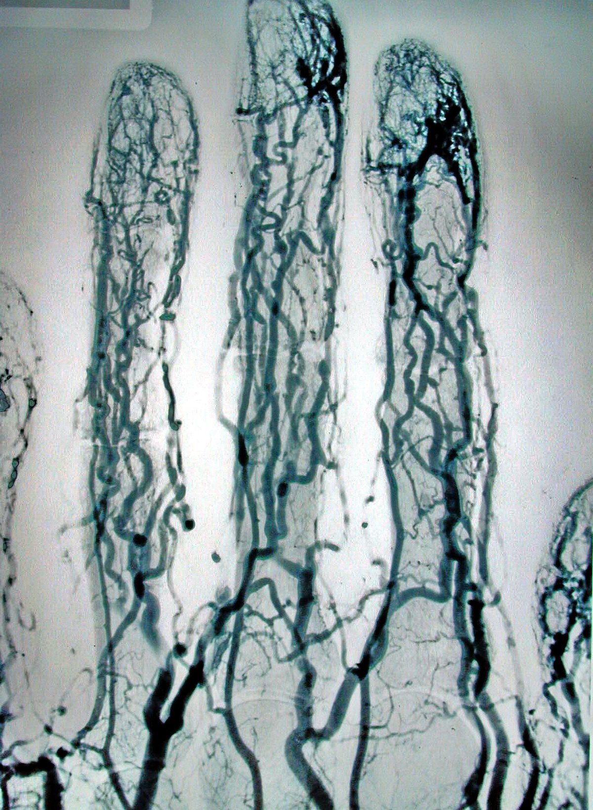 Hand Angiography with enhancement and substrction